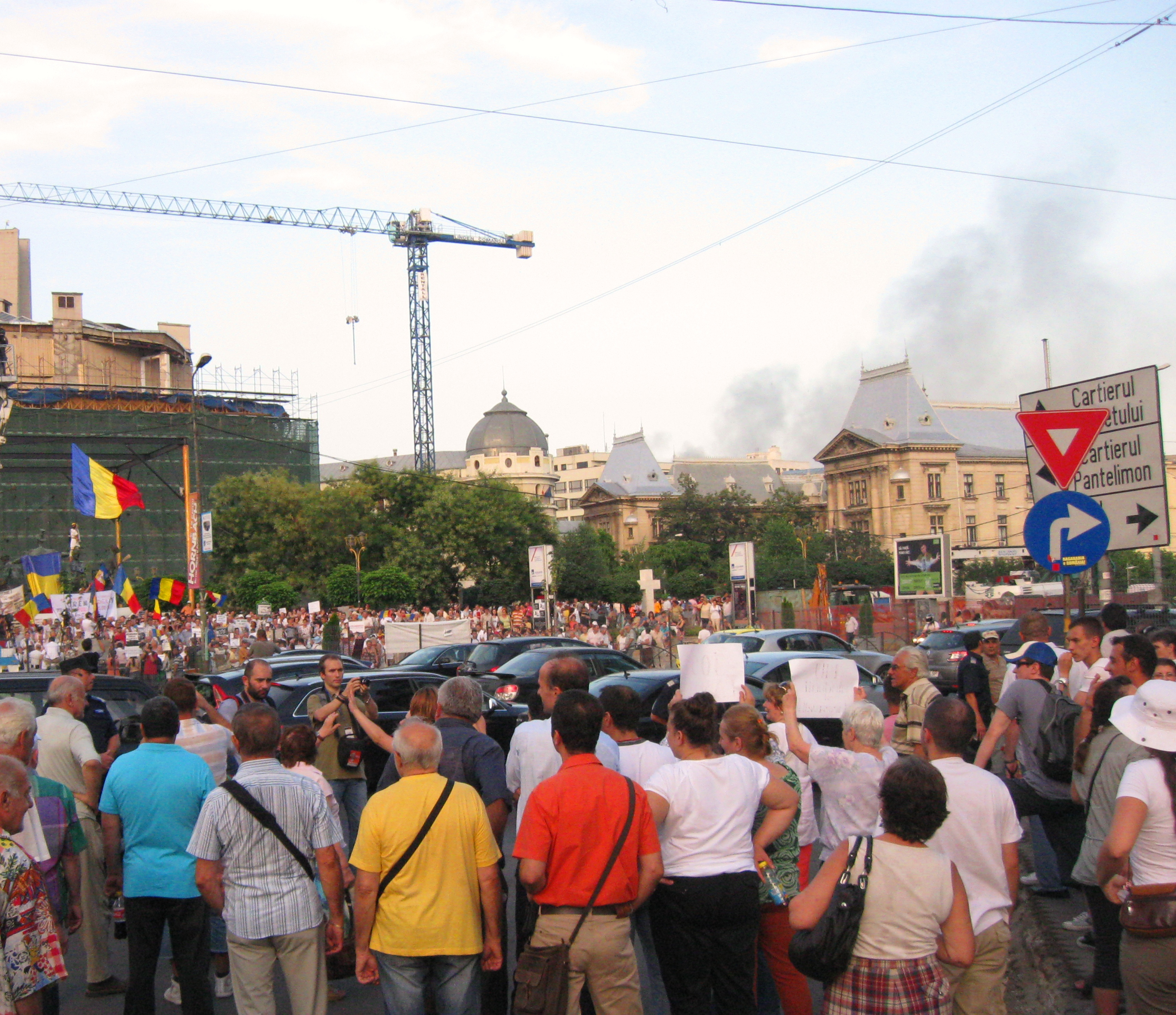 A rally in favor of President Băsescu's impeachment (University Square, Bucharest). In the background, a column of smoke rising from Mătasea Populară Factory, which had caught fire in an unrelated incident.